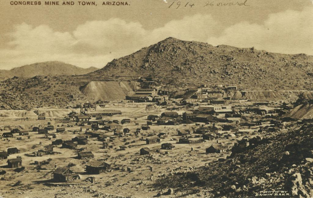 Town of Congress, Arizona, circa 1914.